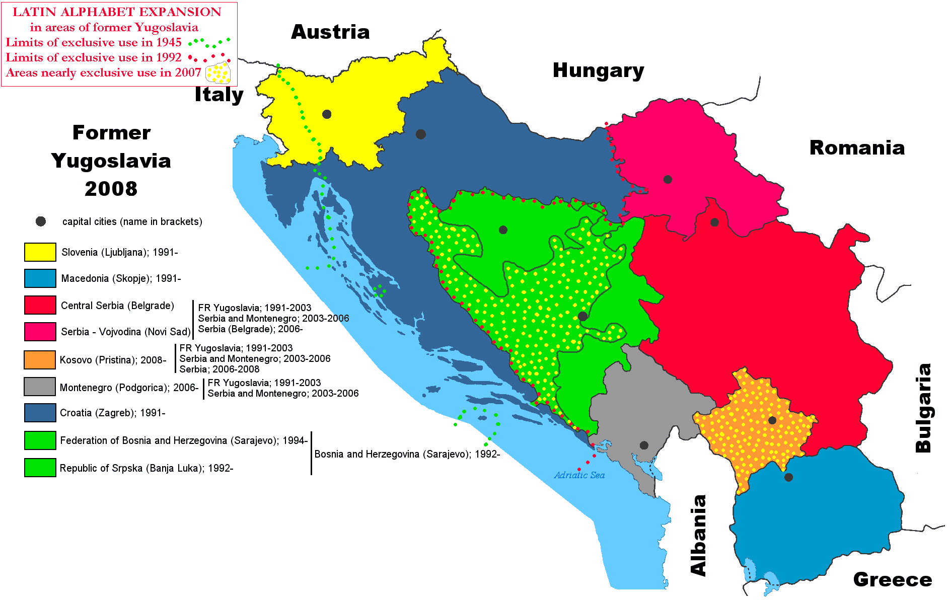 Map showing the expansion of the use of Latin alphabet in areas of former Yugoslavia. Green points until 1945 (former Italian areas); red points until the dissolution of Yugoslavia in 1992 (Slovenia and Croatia); "yellow points areas" with nearly exclusive use, but officially still allowing the Cyrillic alphabet (Croat-moslem Bosnia/Herzegovina and Kosovo). Basic map taken from Wikipedia commons (with free use). All the other areas of former Yugoslavia use both the Latin (but with minoritary use) and the Cyrillic alphabet.